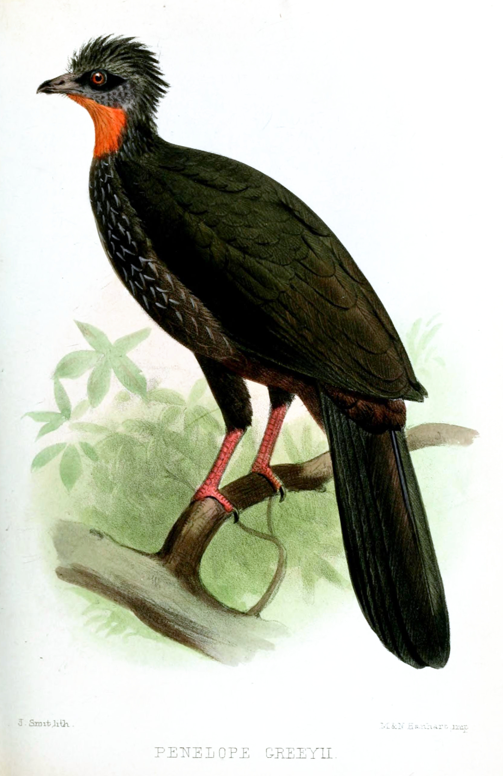 Marail Guan, adult